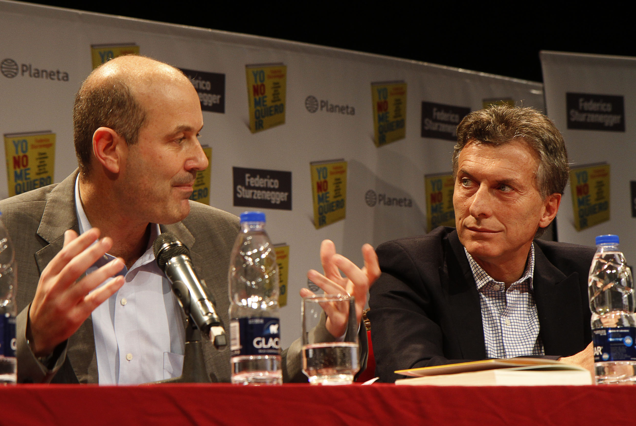 The Director of the Bank of the City Buenos Aires, conservative economist Federico Sturzenegger, and the Mayor of Buenos Aires, Mauricio Macri, at a press conference to promote Sturzenegger's book, Yo no me quiero ir ('I Don't Want to Leave'). Photo: Marìa Inès Ghiglione/GCBA